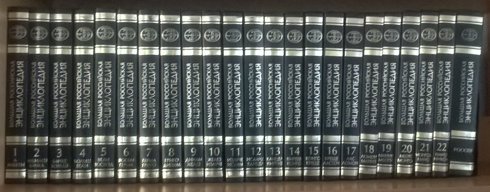 Encyclopaedia Rossica in Vilnius University Library.